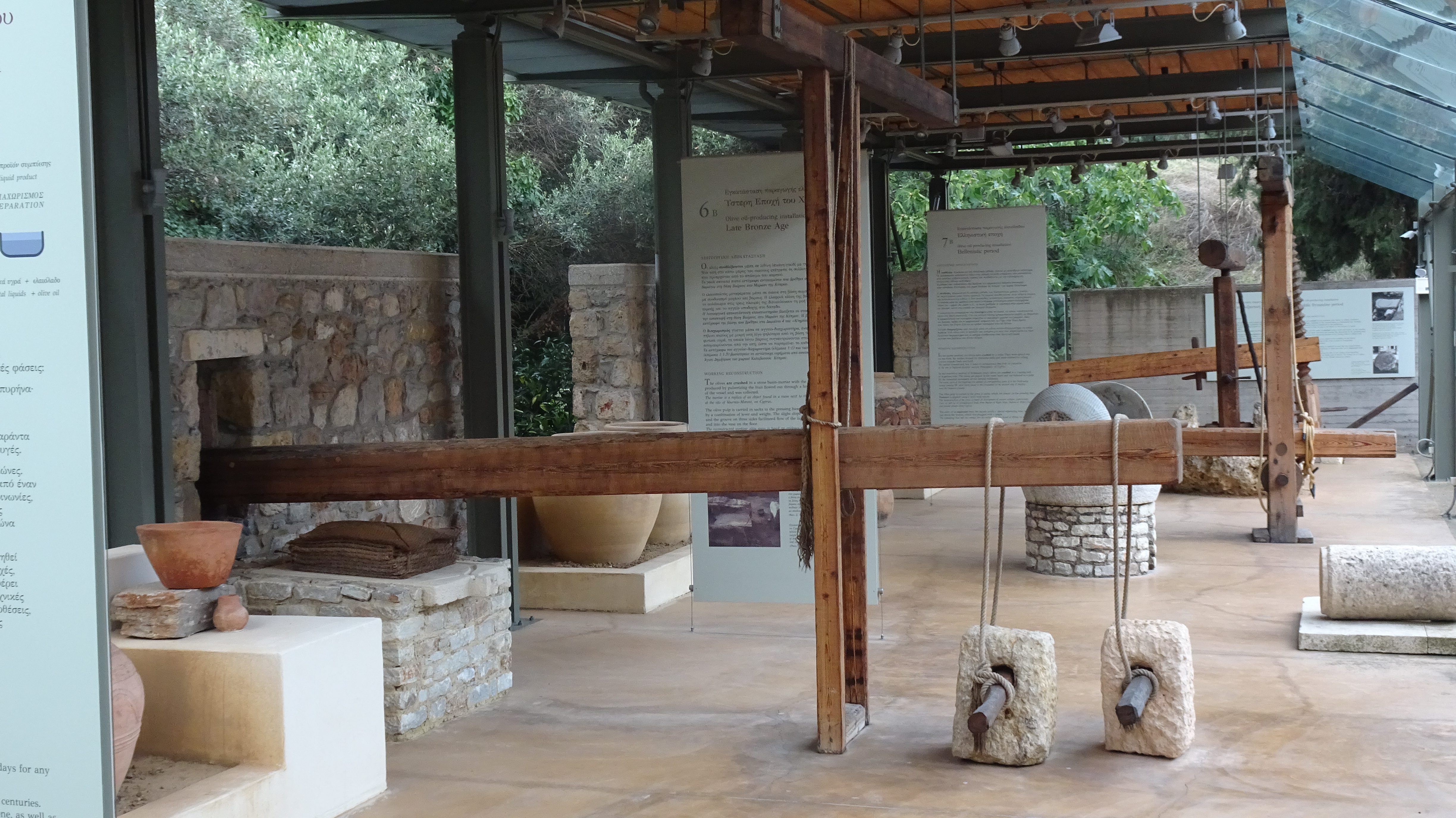 Various types of oil presses. Museum of the olive and greek olive oil